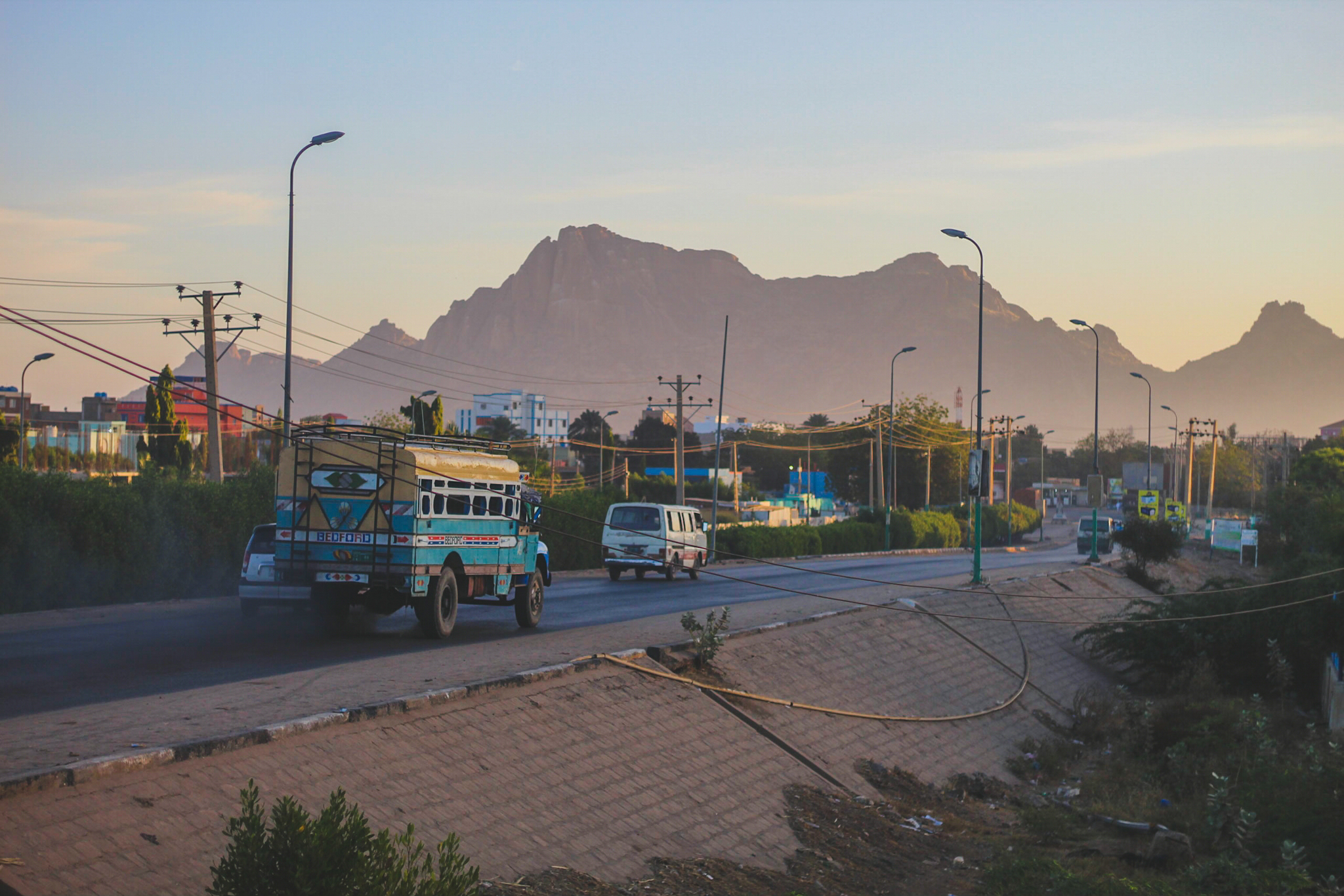 This is an image with the theme "Africa on the Move or Transport" from: Sudan